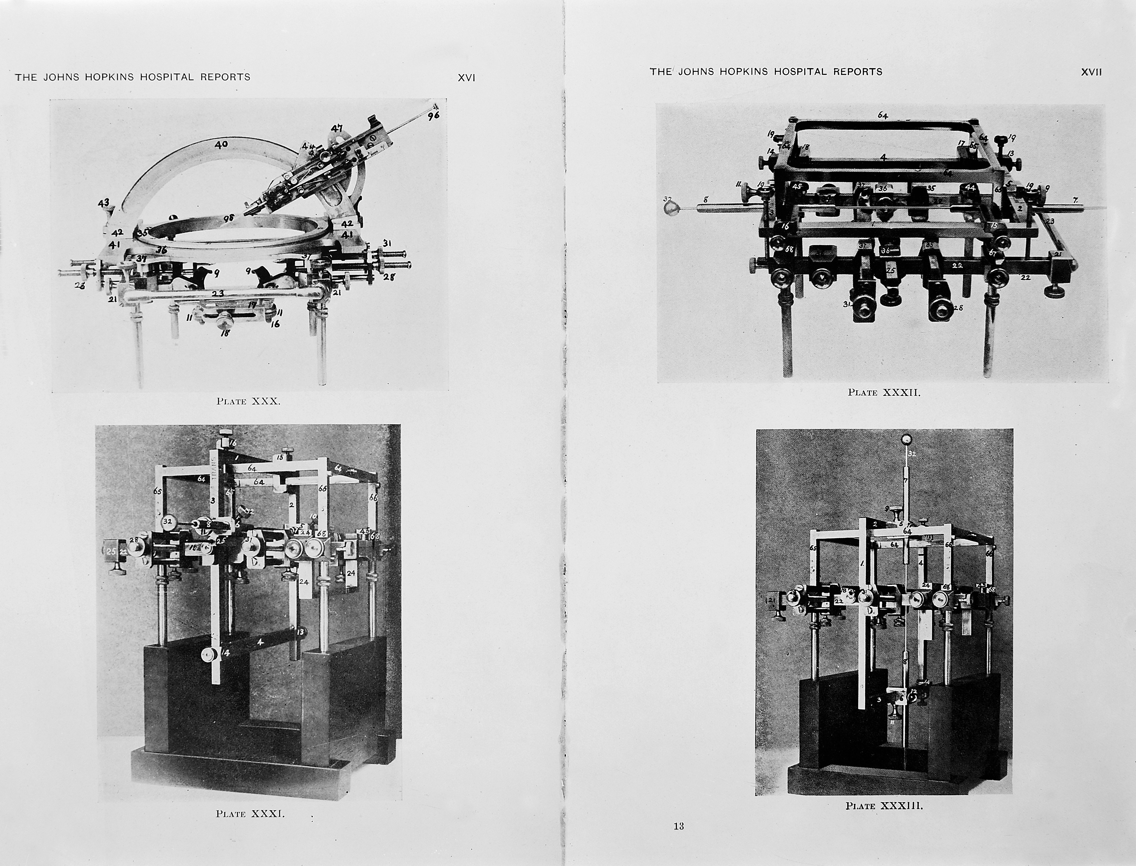 The stereotaxic apparatus: illustrations. Wellcome Images